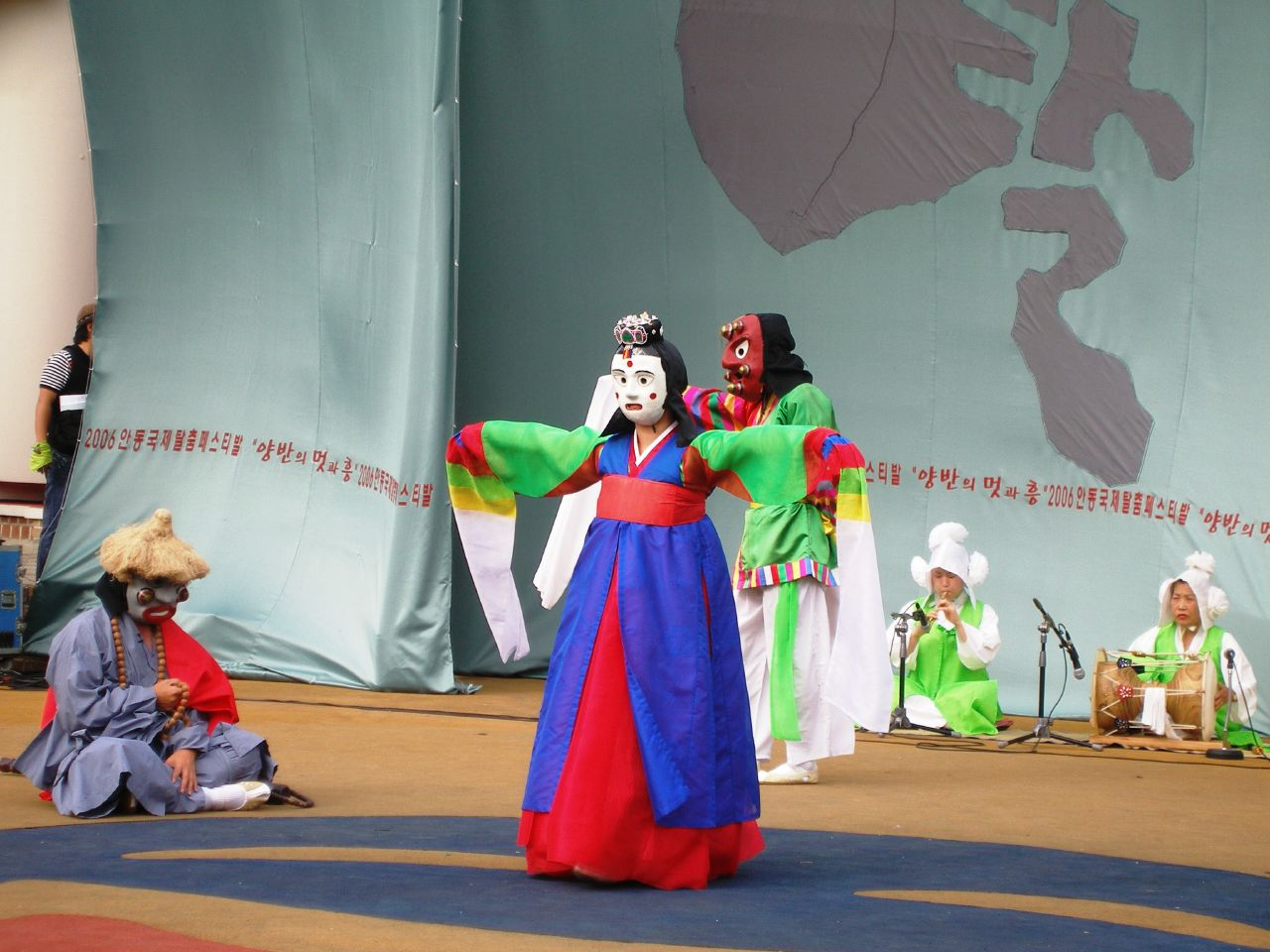 Eunyul talchum, a Korean mask dance originated in Eunyul, Hwanghae Province, now North Korea